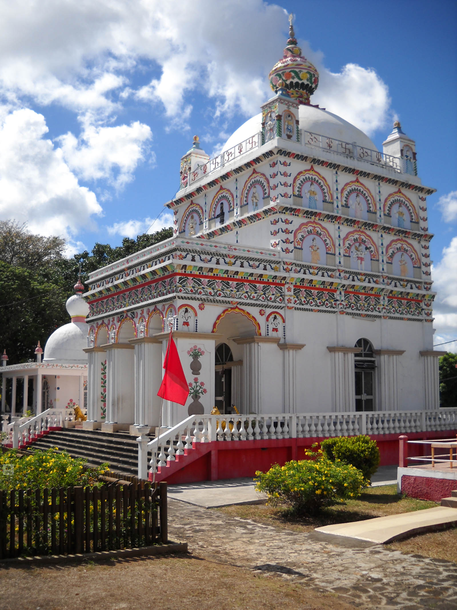 Maheswarnath Shiv Mandir